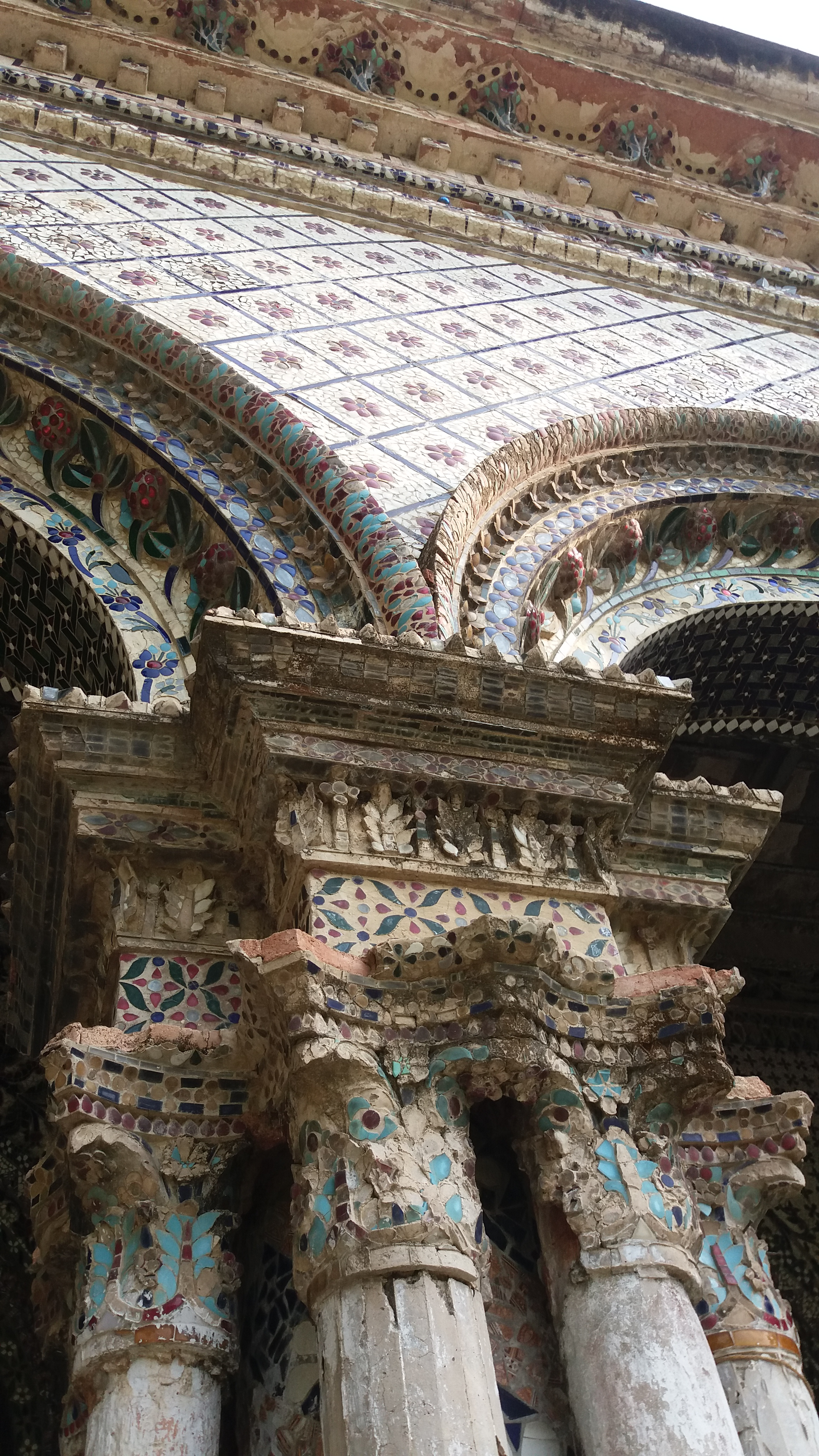 Hemnagar Rajbari is one of the most beautiful palace of King Hem Chandra Chowdhury. It is now in Hemnagar union under Gopalpur upazila in Tangail district.